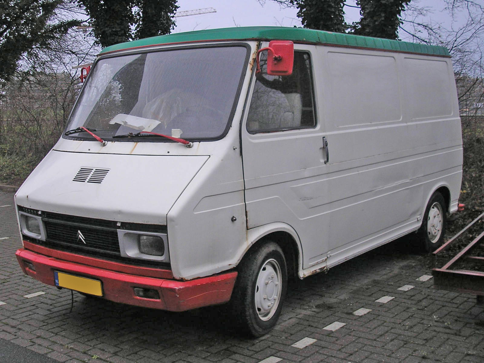 Citroën C35 (en) dutch registration 25-01-1980. The C35 is very similar to the Fiat 242. Location: Sittard, Netherlands Keywords: Van